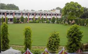 It's a school situated at Kanpur